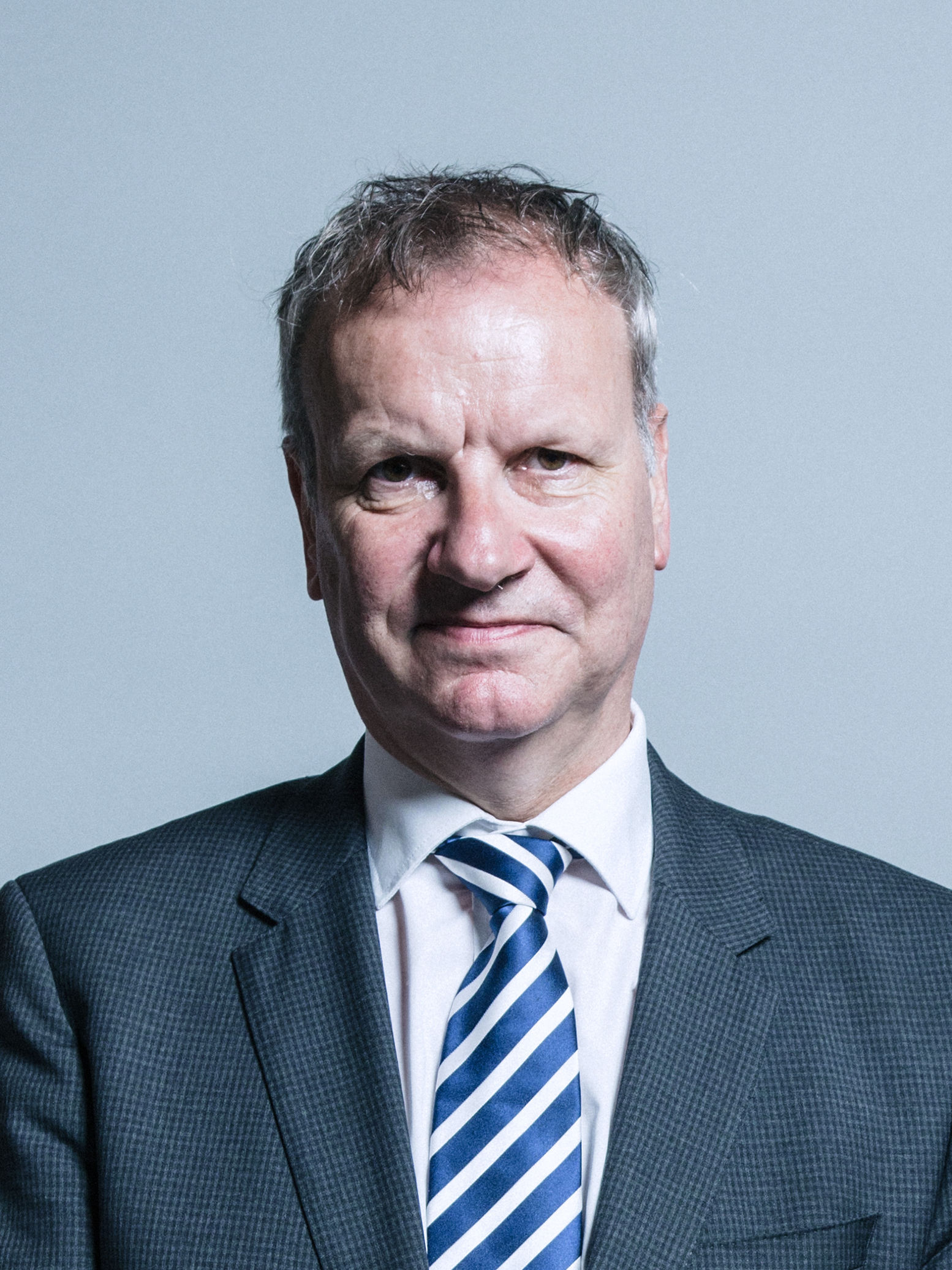 Official portrait of Pete Wishart